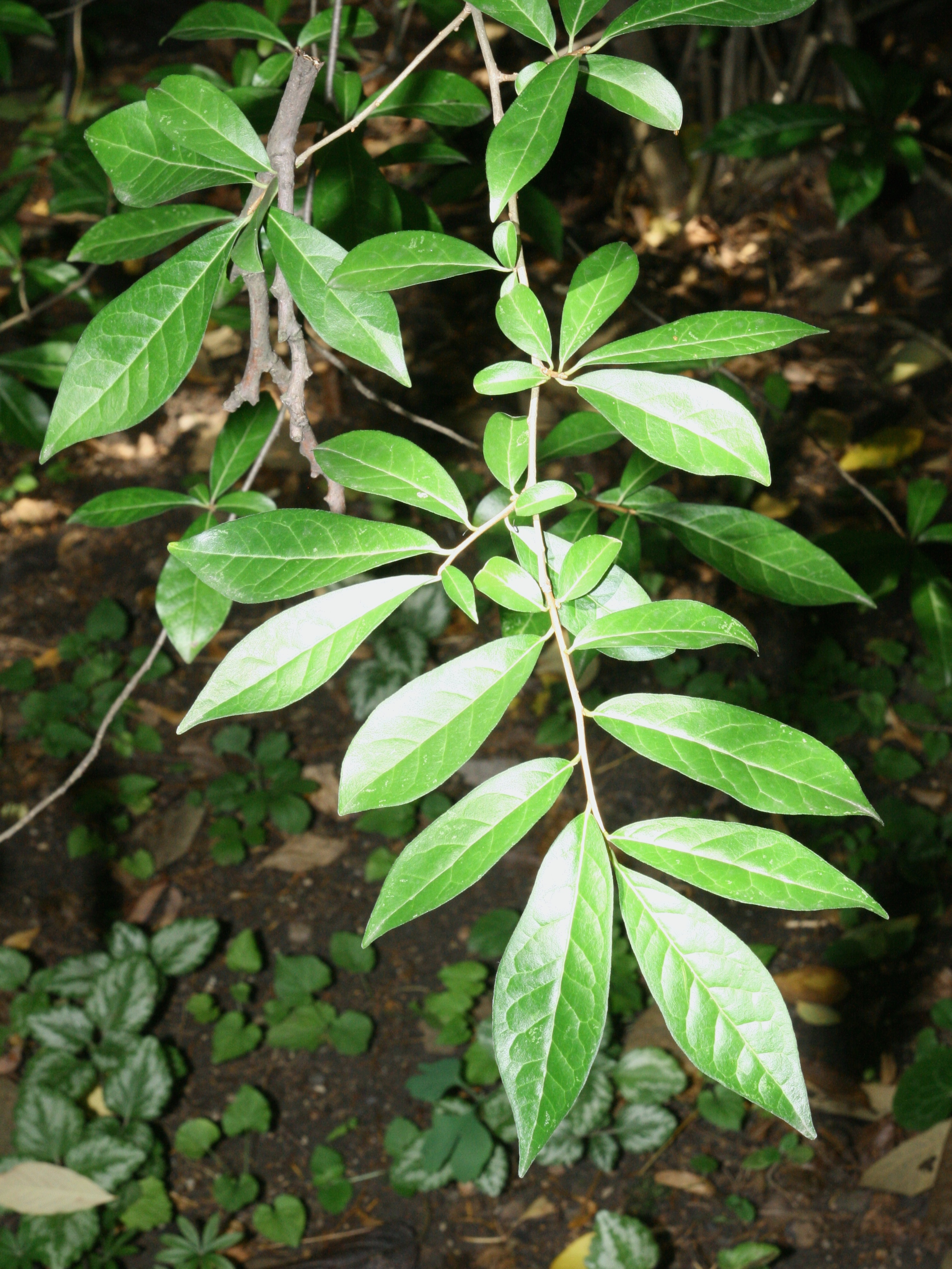 Orixa japonica, Arboretum in Brno, Czech Republic